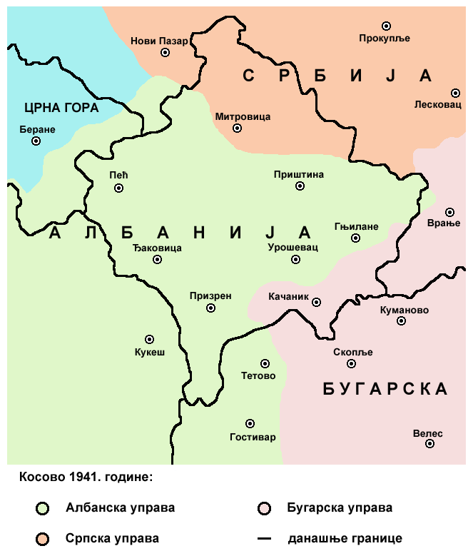 Division of modern-day territory of Kosovo between Axis states in 1941.